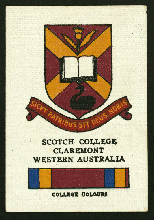 Cigarette Card collector series featuring Crests and colours of Australian Universities, colleges and schools: the Scotch College, Perth.